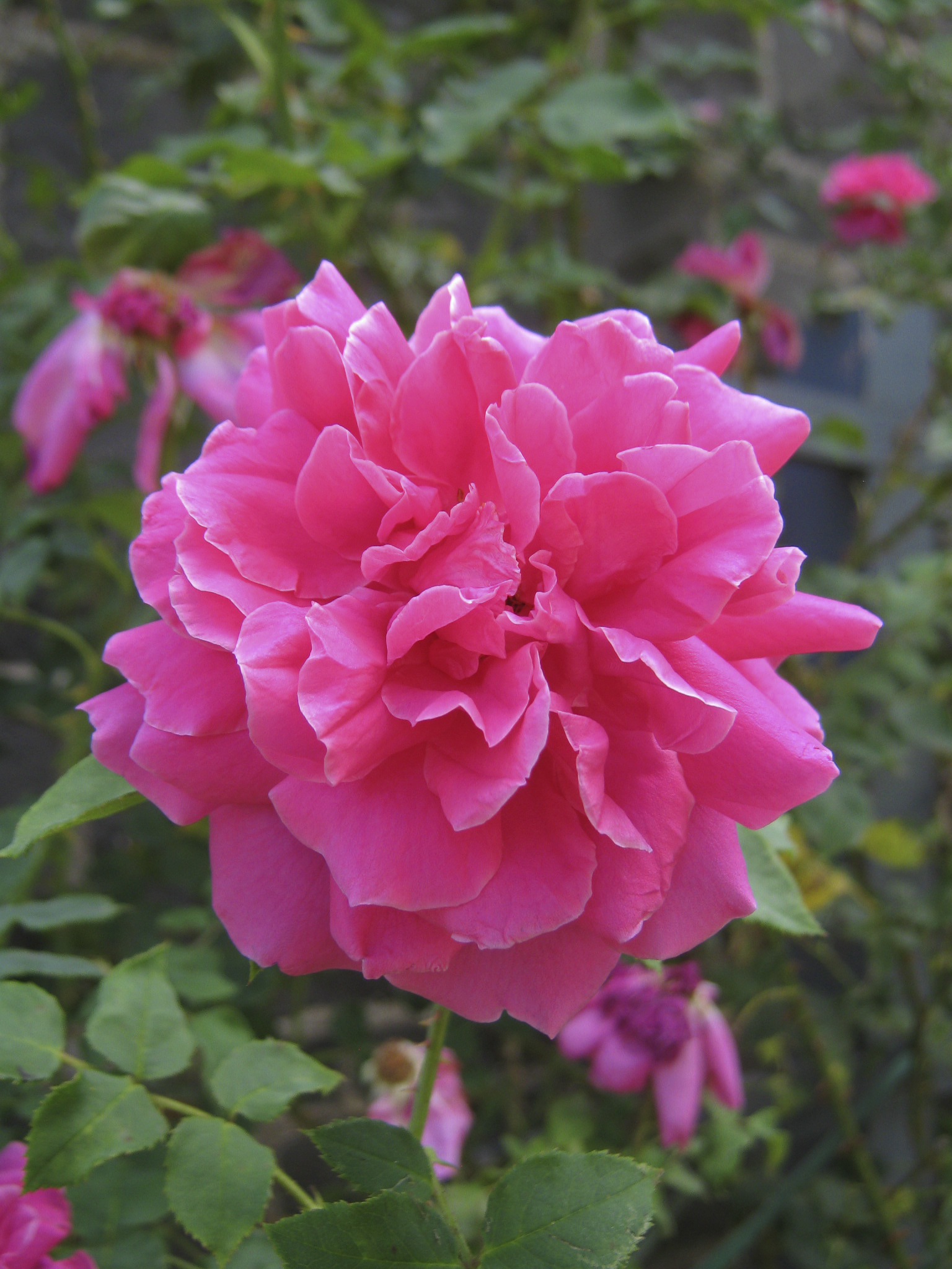 Rose 'Queen of Hearts', Hybrid Tea climber by Alister Clark 1921; photographed in the Alister Clark Memorial Rose Garden, Bulla, Victoria